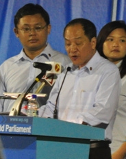 Secretary-General of the Workers' Party of Singapore Low Thia Khiang speaking at his party's rally at an open field in Sengkang bounded by Sengkang East Avenue and Sengkang East Drive for the Singaporean general election, 2011.